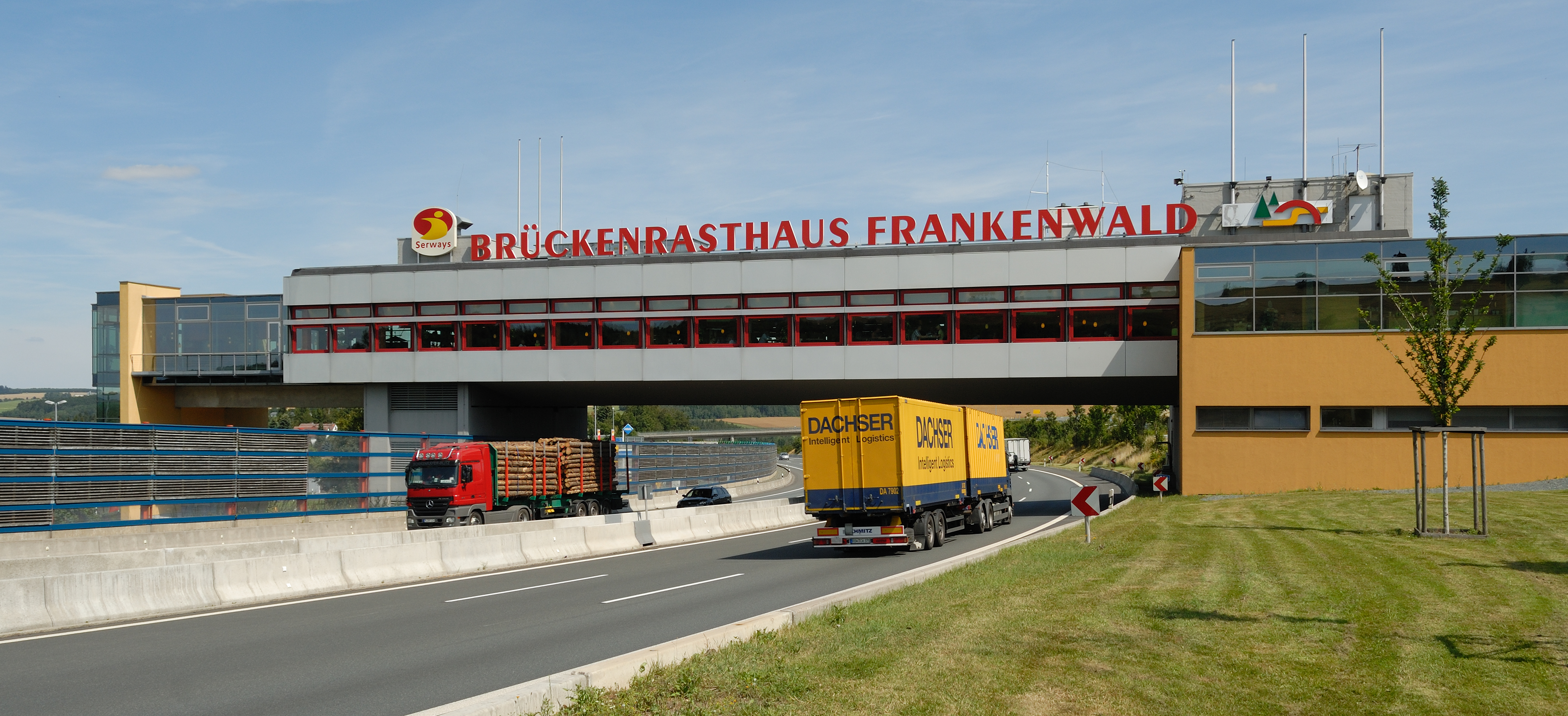 Bridge service area "Frankenwald" spanning A 9 highway.